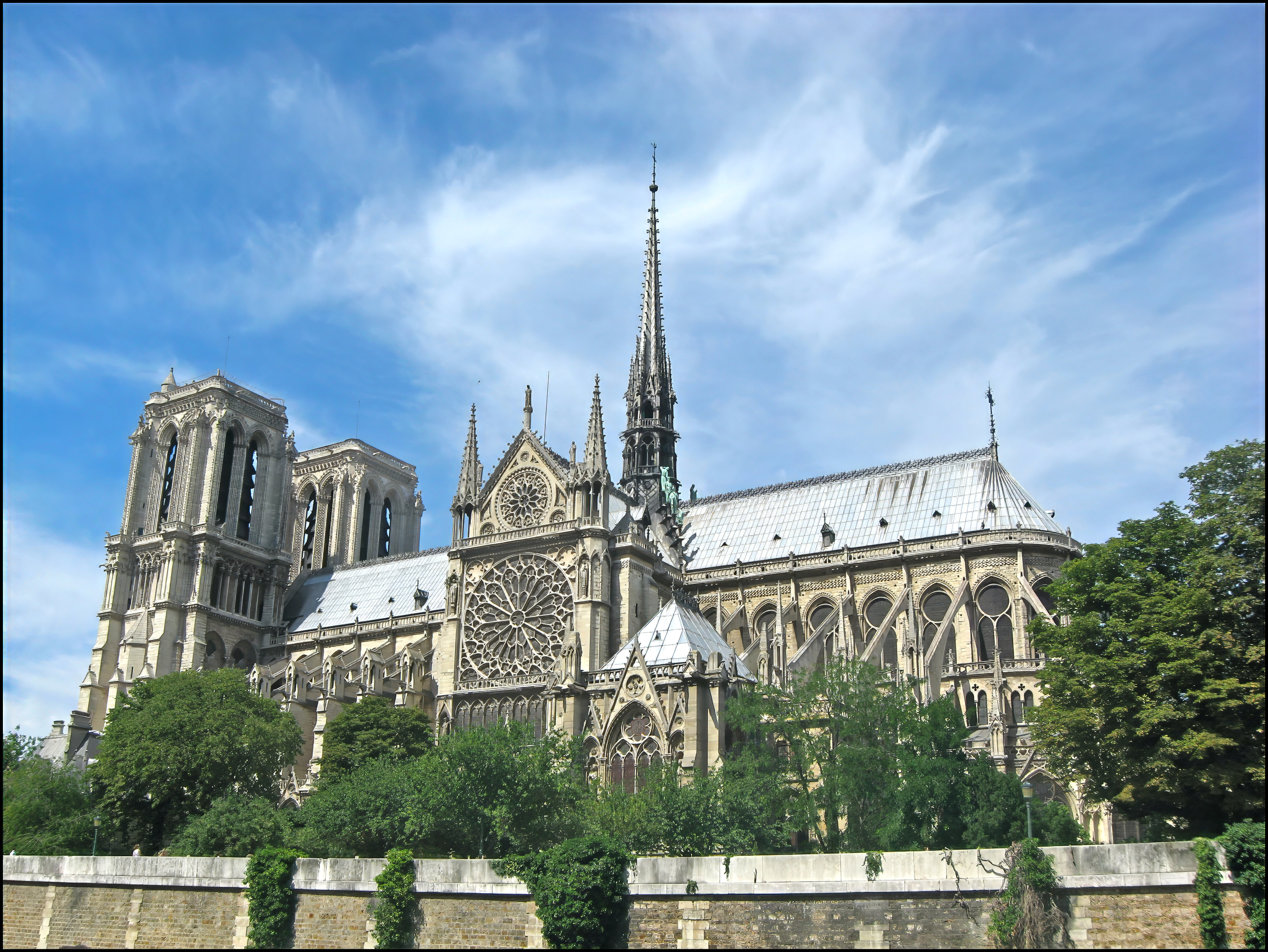 View of Cathedrale Notre-Dame de Paris from the river